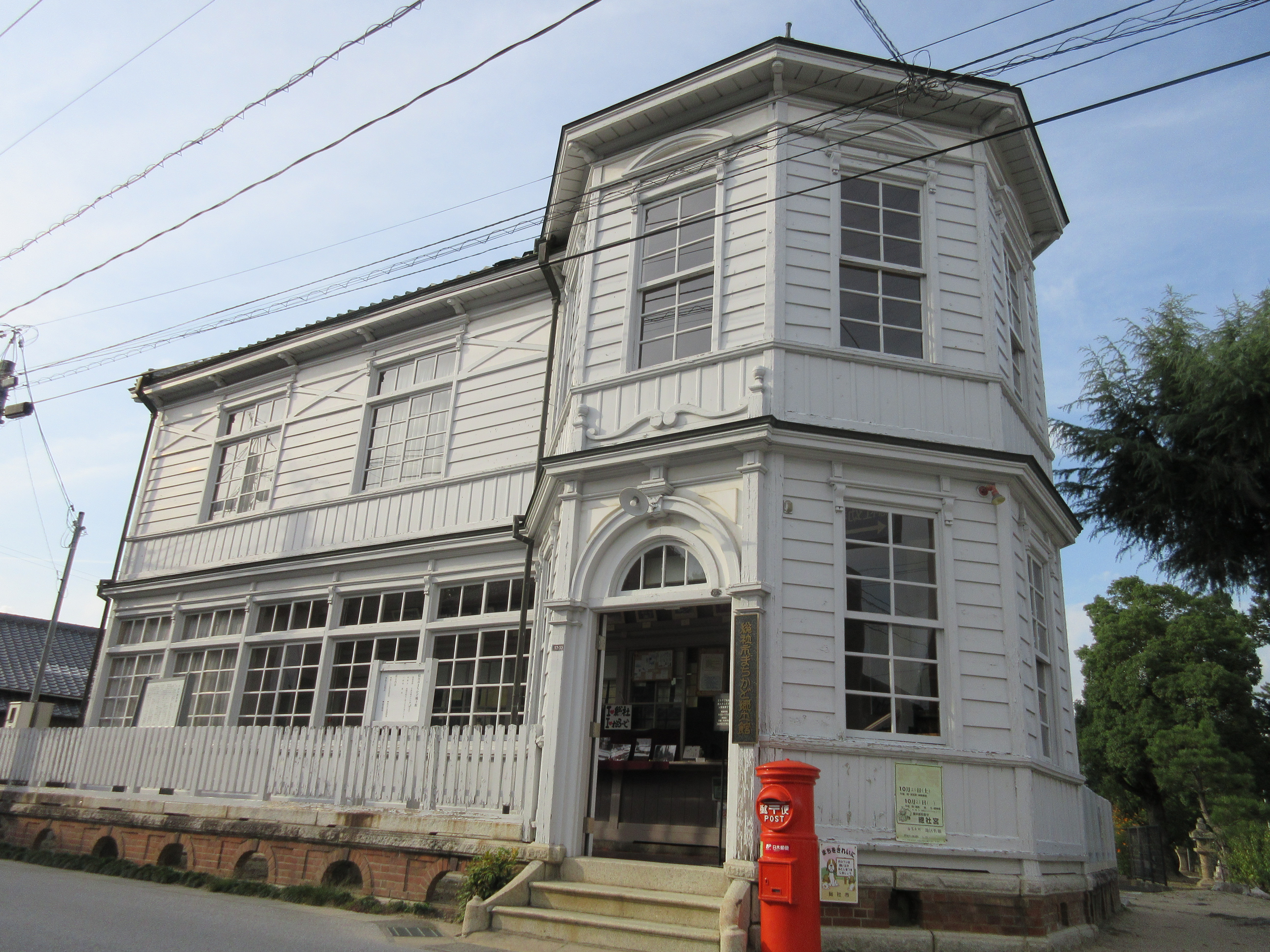 soja machikado kyudokan